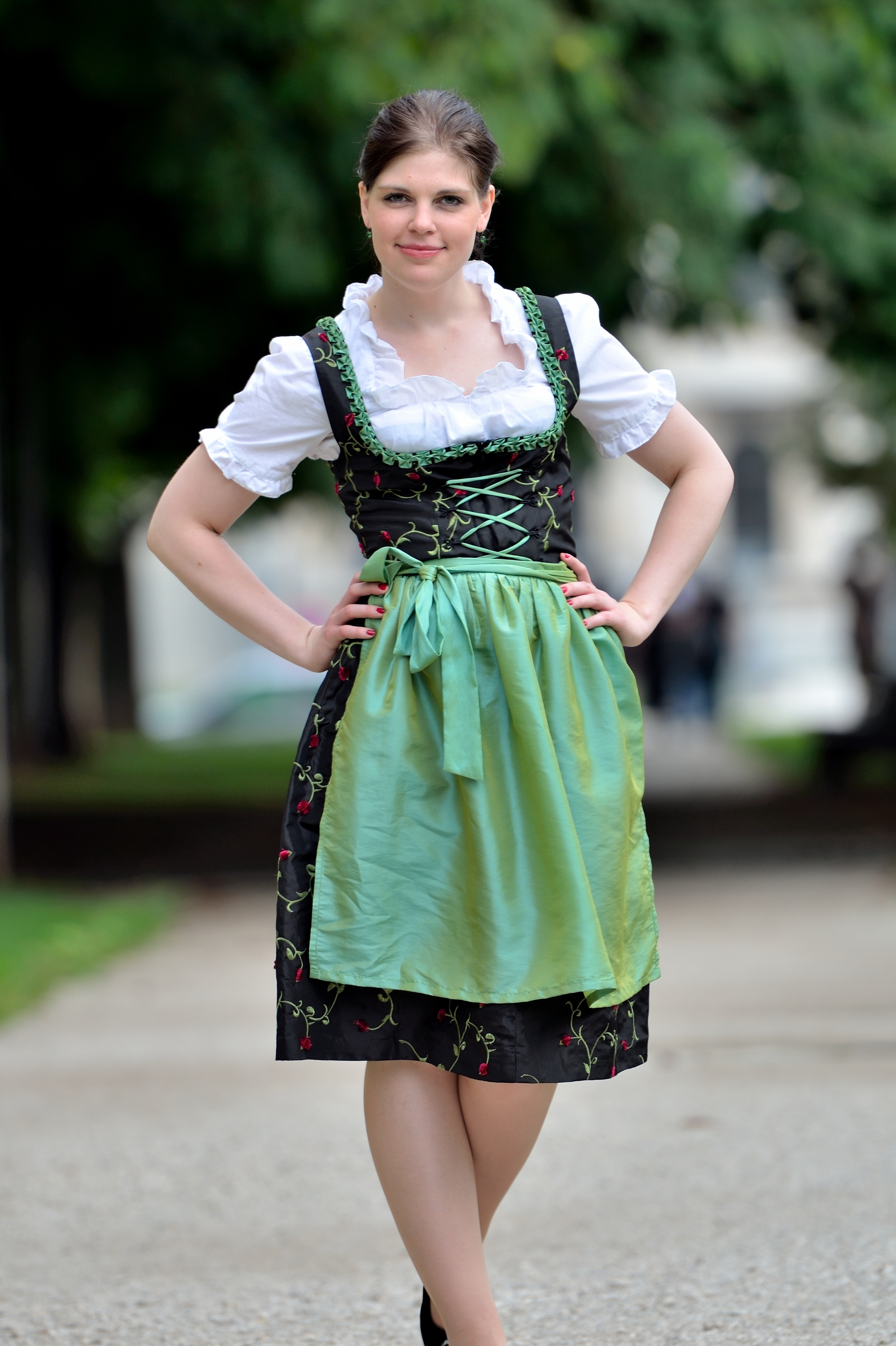 Dirndl with cording and green apron